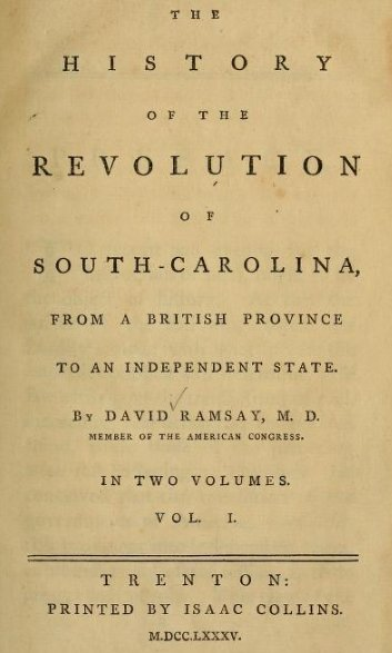 Revolution of South Carolina 1785 printed by Isaac Collins